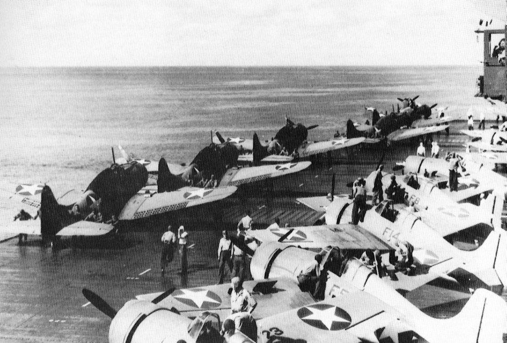 The flight deck of the U.S. aircraft carrier USS Enterprise (CV-6) on 15 May 1942. Visible are 15 Grumman F4F-4 Wildcat fighters of fighting squadron VF-6 and six Douglas SBD-3 Dauntless dive bombers of bombing squadron VB-6 and/or scouting squadron VS-6.